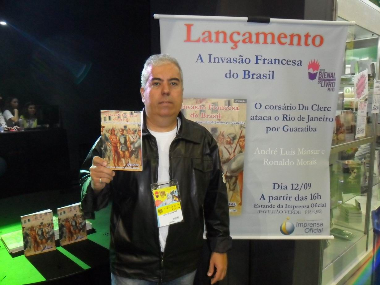 Book cover French invasion of Rio de Janeiro